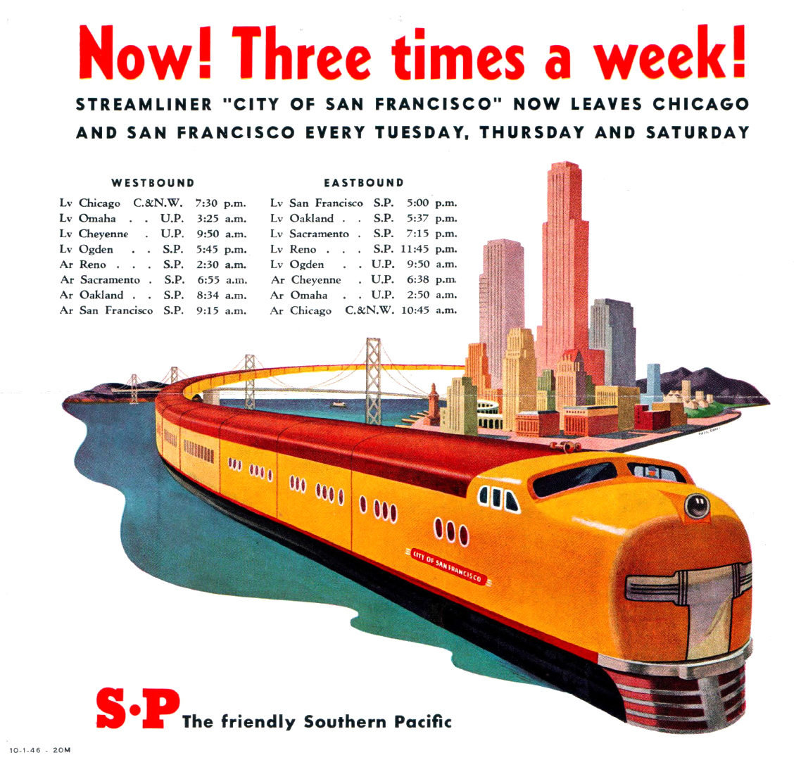 City of San Francisco SPRR advertising mailer, October 1, 1946